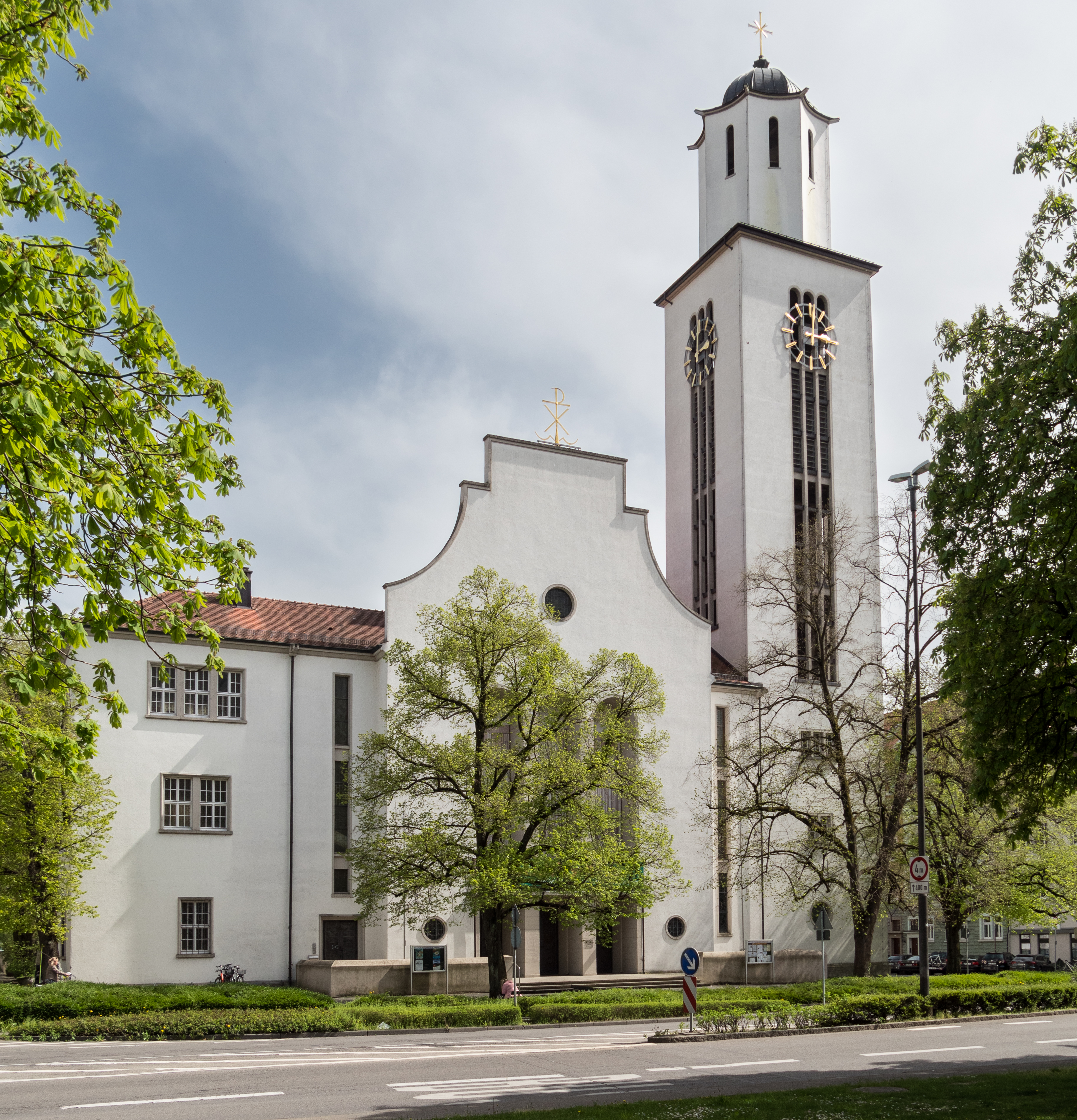 Saint Gebhard Church in Constance